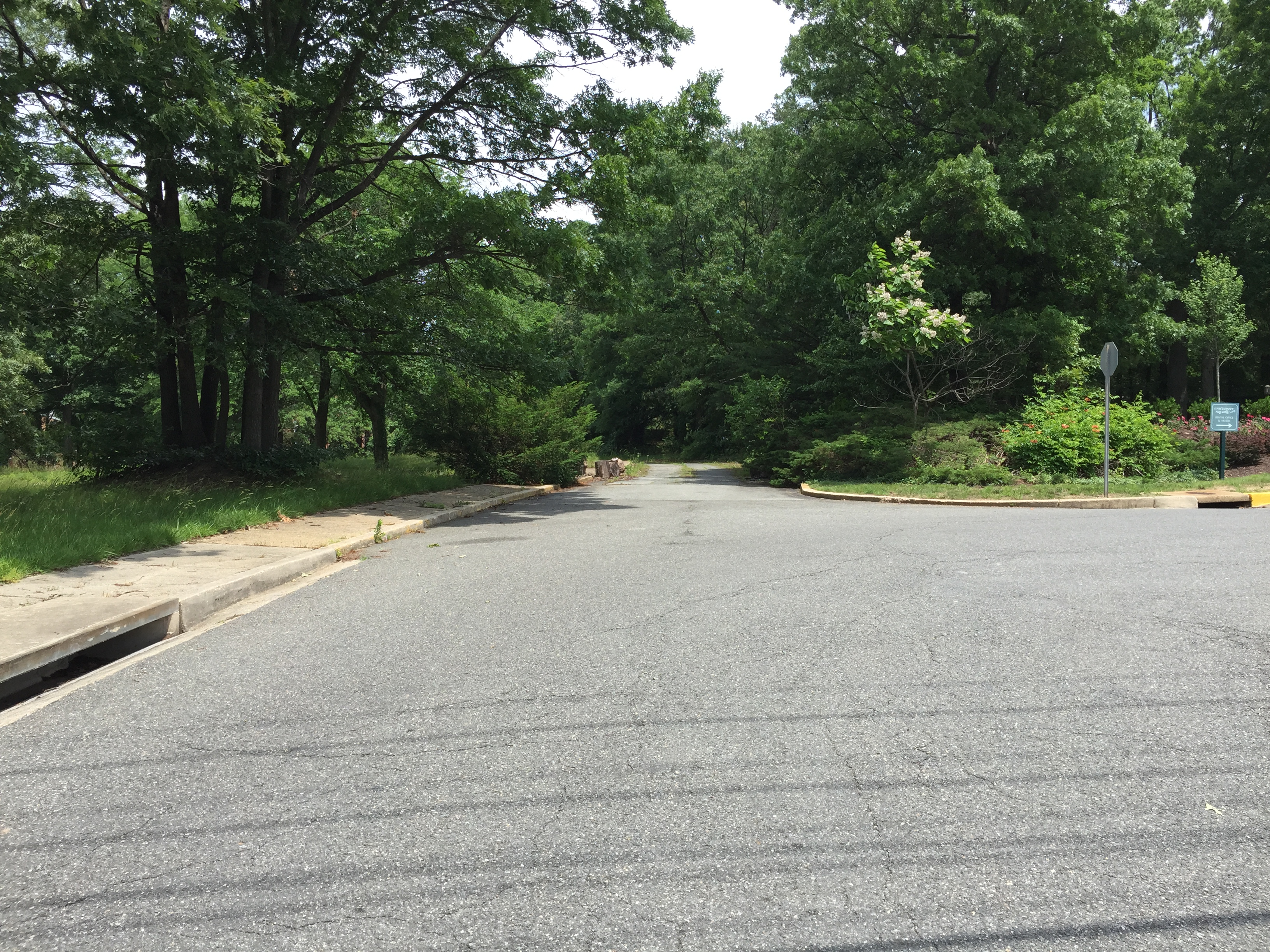 View north along Maryland State Route 968 (National Guard Armory Entrance) at Maryland State Route 193 (Greenbelt Road) in Greenbelt, Prince George's County, Maryland